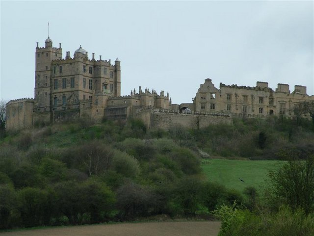 Bolsover Castle.